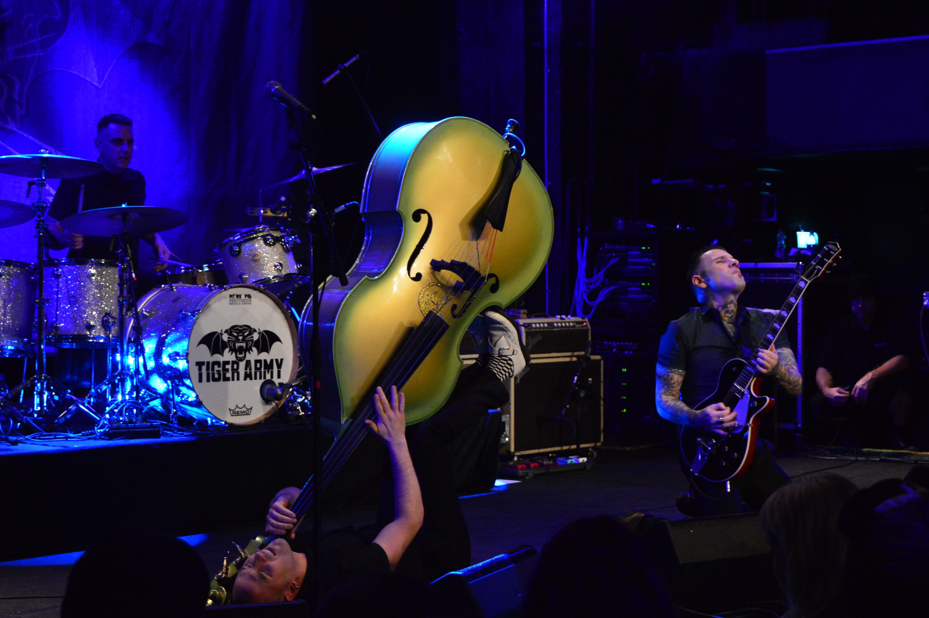 Djordje Stjepovic performing with Tiger Army In Gothenburg Sweden in 2016 Српски (ћирилица): Ђорђе Стијеповић наступа са Тајгер Арми у Гетебургу Шведска 2016 год.